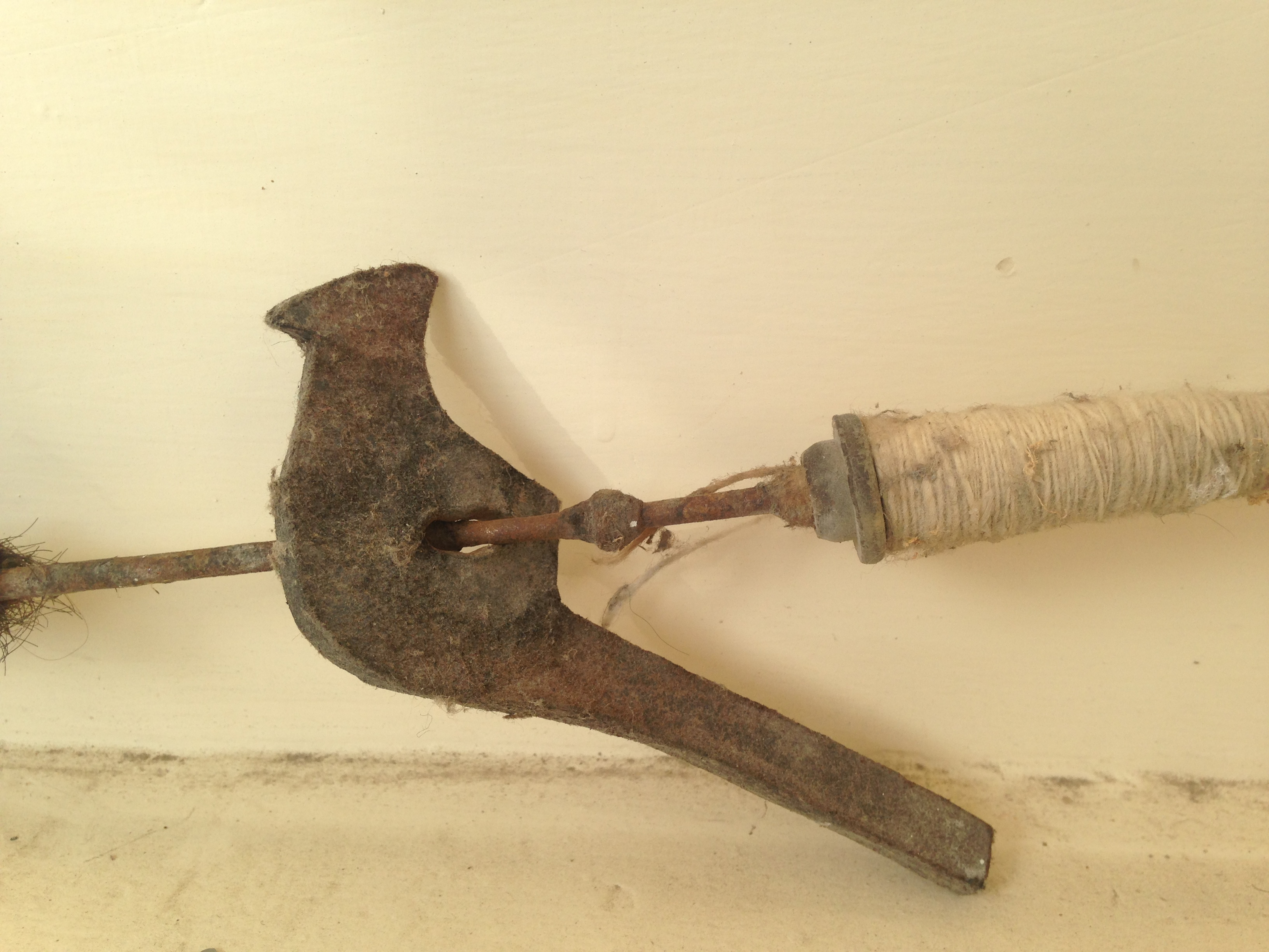 Charmakh is a part of Charkha